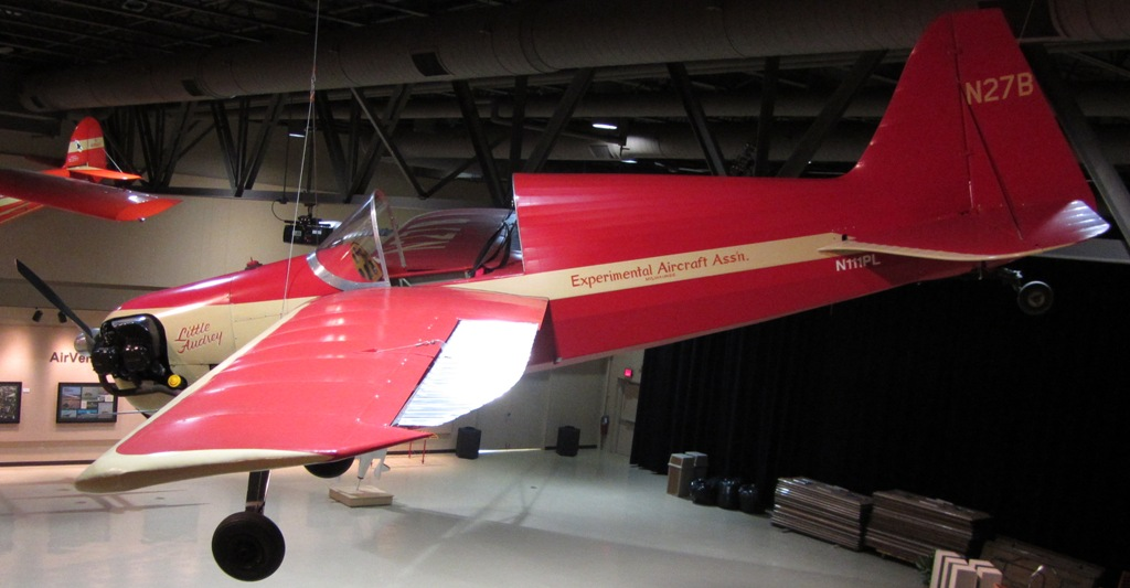 Howard DGA-3